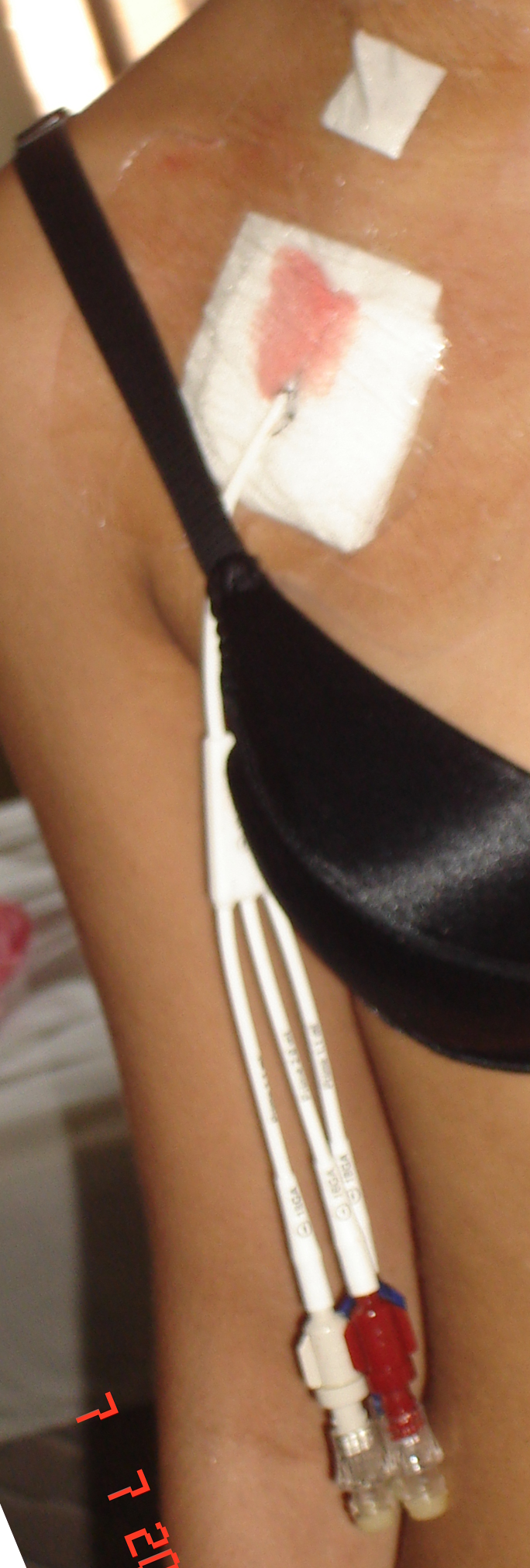 A central venous catheter with three lumens.